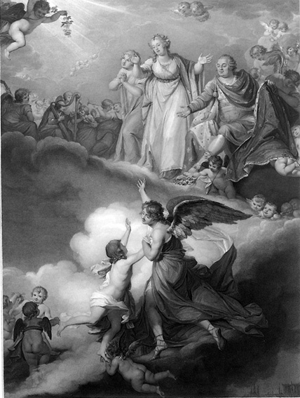 Allegorical scene depicting the death of the Dauphin. Probably en engraving, I seek proof of this. Edited on January 1st, 1800.